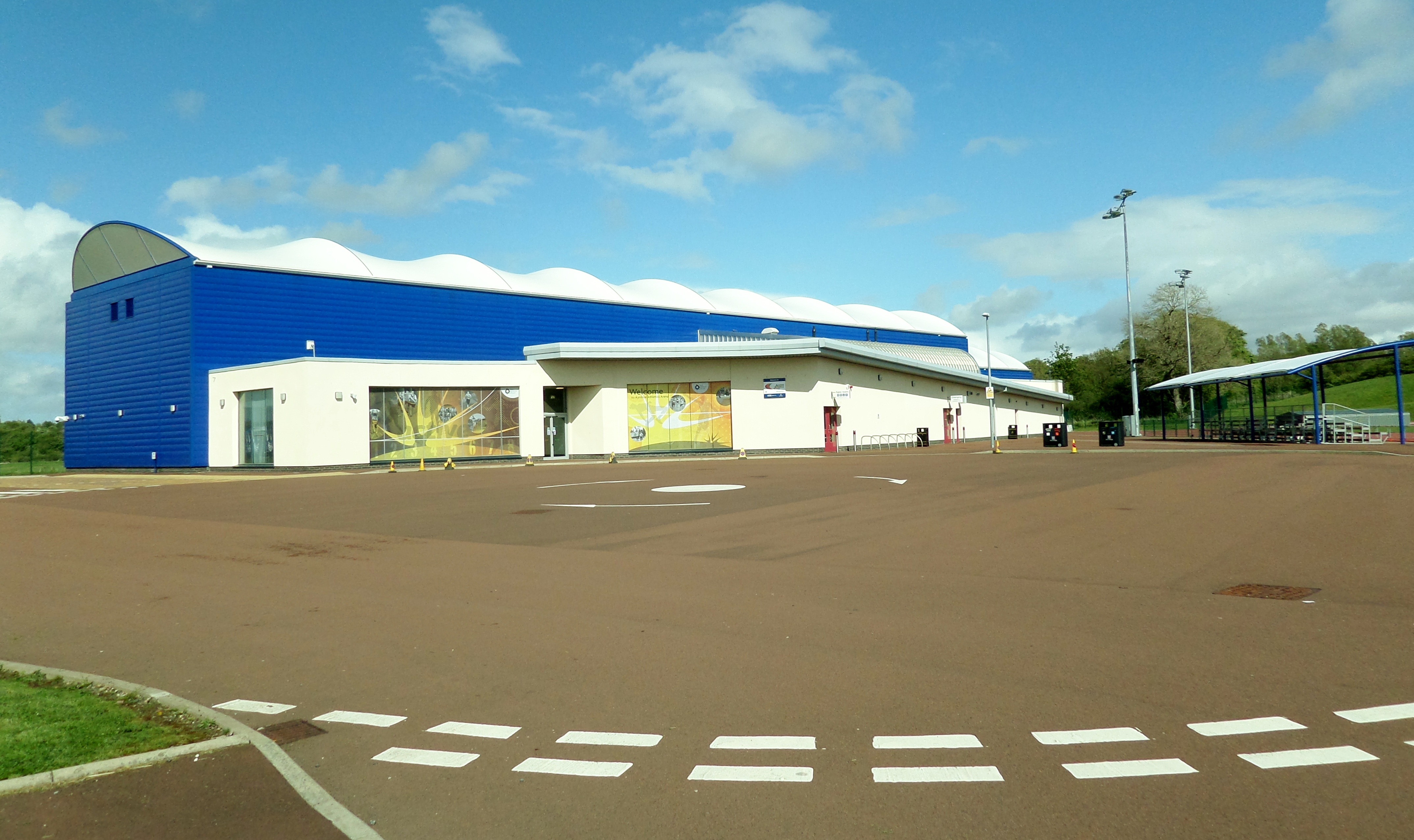 The Ayrshire Athletics Arena, Queens Drive, Kilmrnock, East Ayrshire, Scotland.